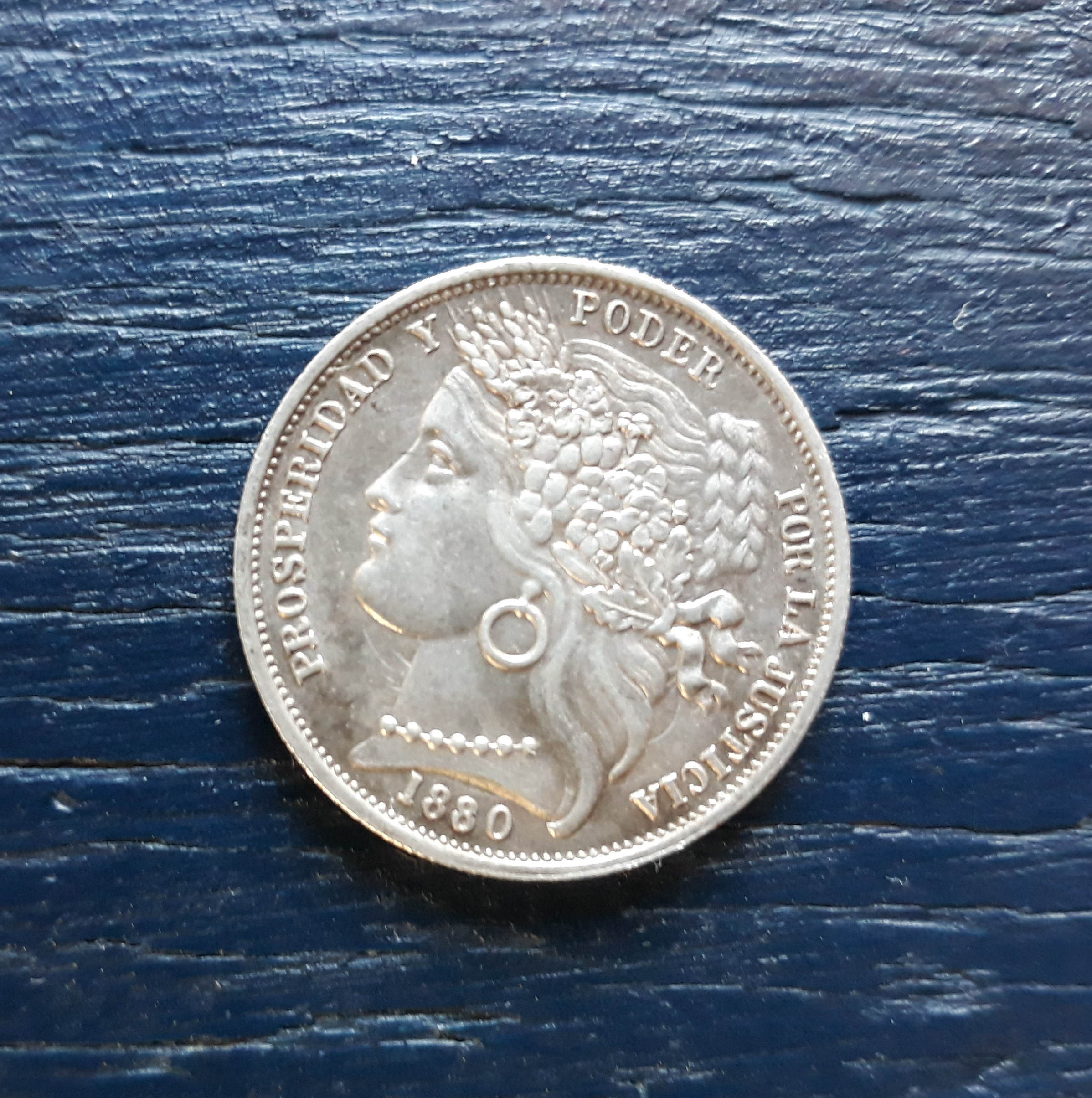 The front of the 1 peseta coin from 1880